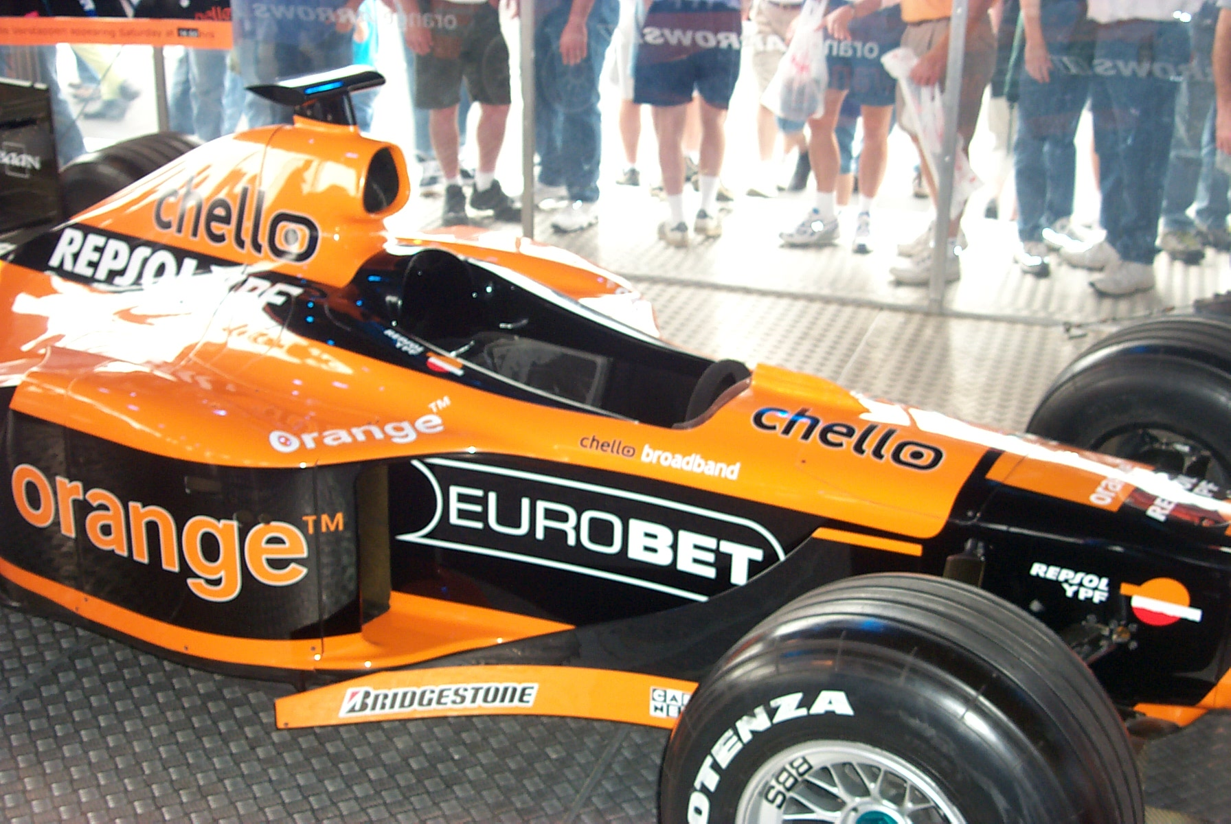 2000 Team Orange Arrows Forumla One car. Photographed at the 2000 United States Grand Prix.